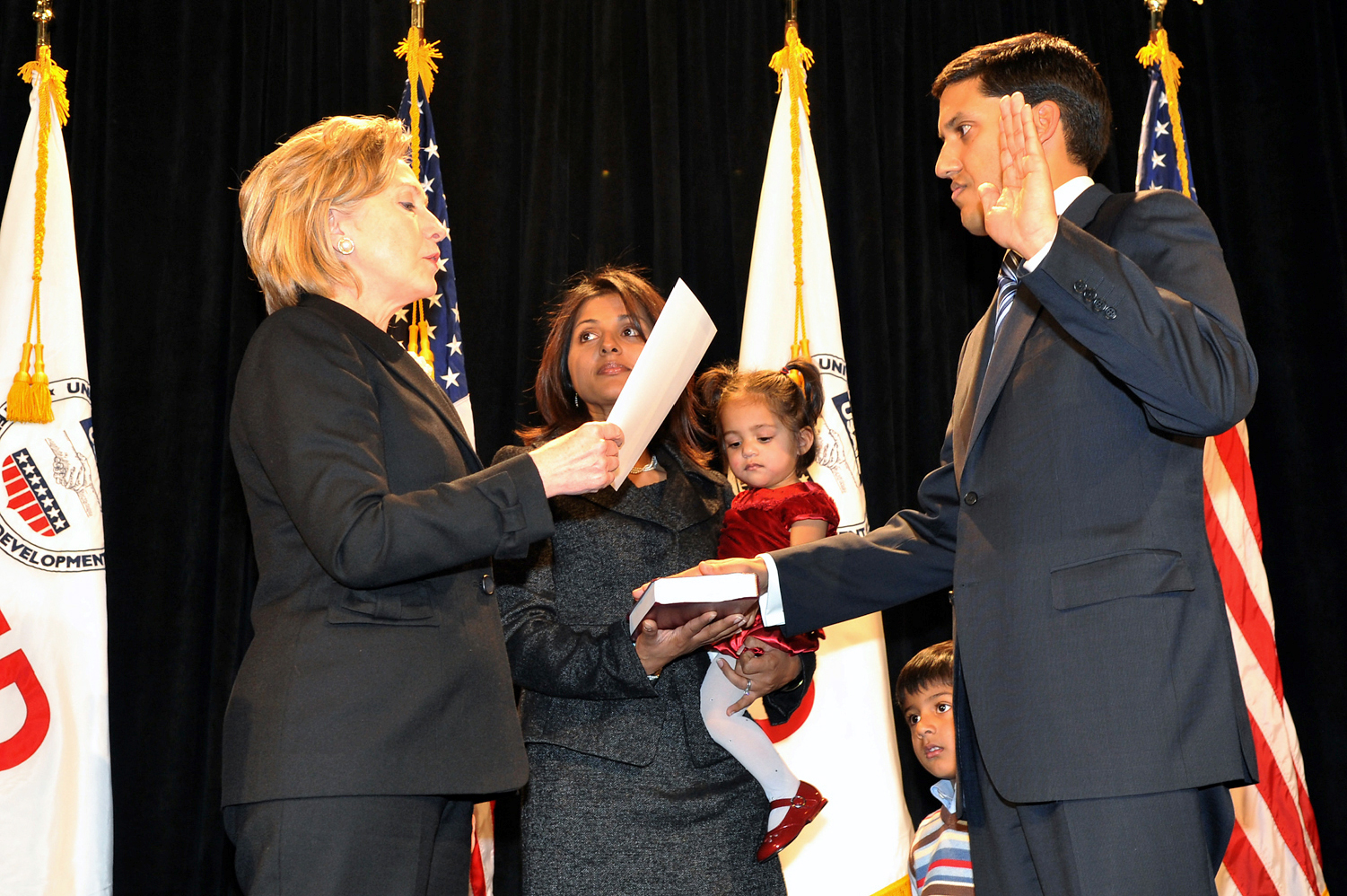 U.S. Secretary of State Hillary Rodham Clinton during the swearing-in ceremony for new USAID Coordinator Rajiv Shah in Washington, DC January 7, 2010.